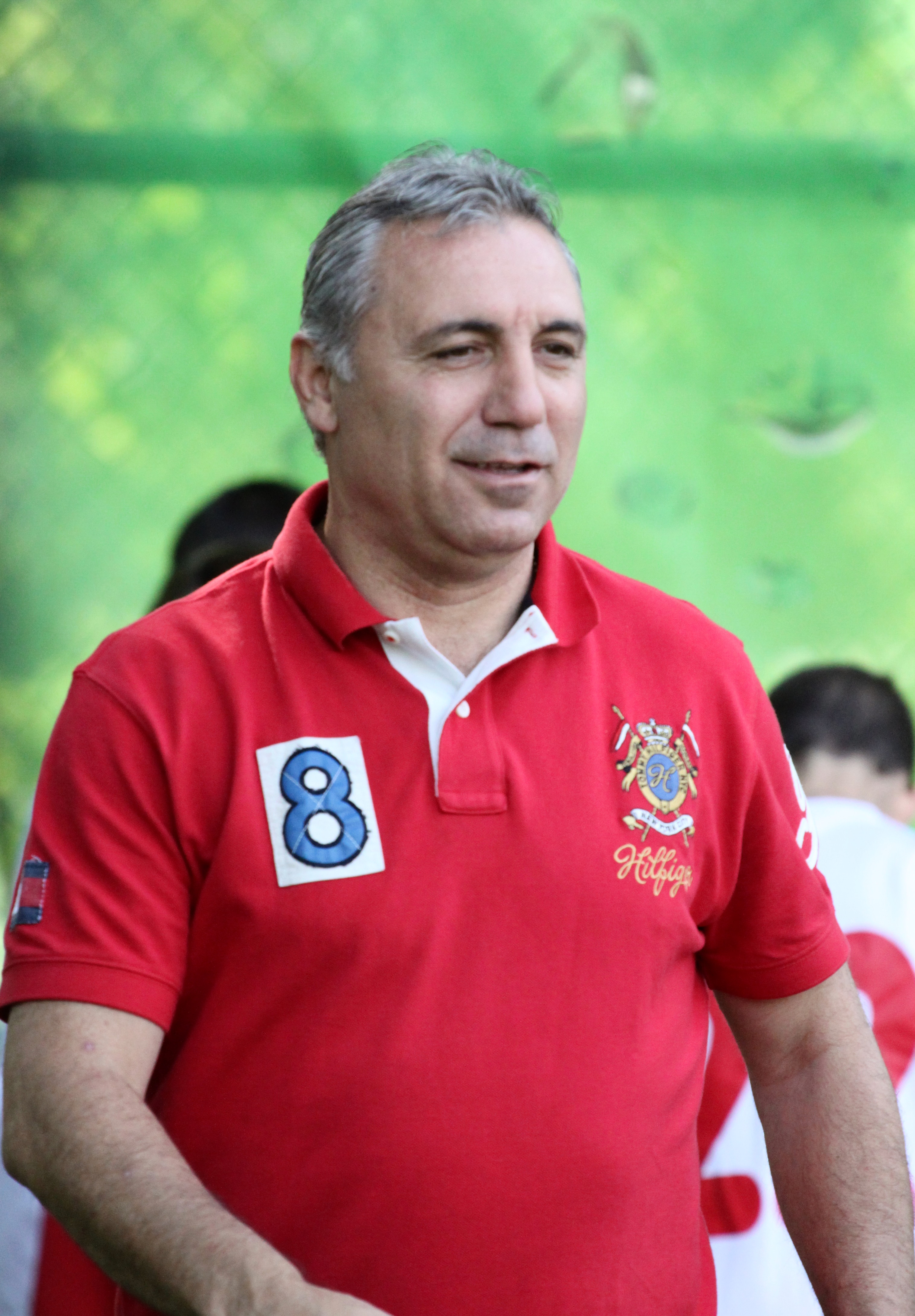 Bulgarian former soccer player and coach Hristo Stoichkov.